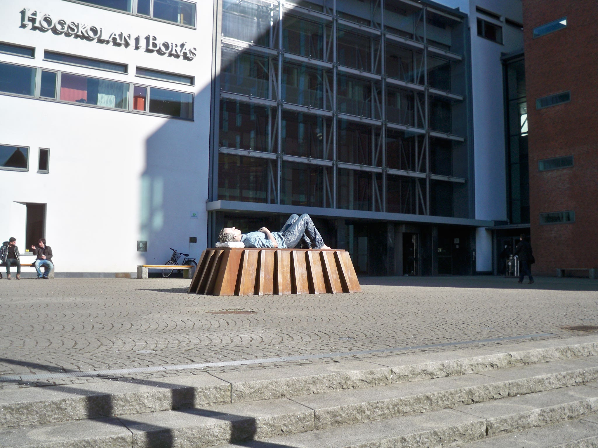 Outside the entrance of the university library building in Borås, Sweden, is this painted bronze sculpture called Catafalque (2003) by the British sculptor Sean Henry (* 1965).